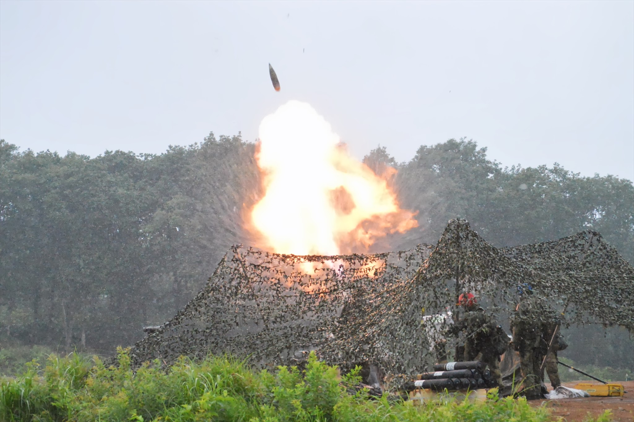 Title 第２次訓練検閲 １２０ｍｍ迫撃砲実弾射（第２２普通科連隊・多賀城）.JPG Album 教育訓練等 第２次訓練検閲 １２０ｍｍ迫撃砲実弾射（第２２普通科連隊・多賀城）